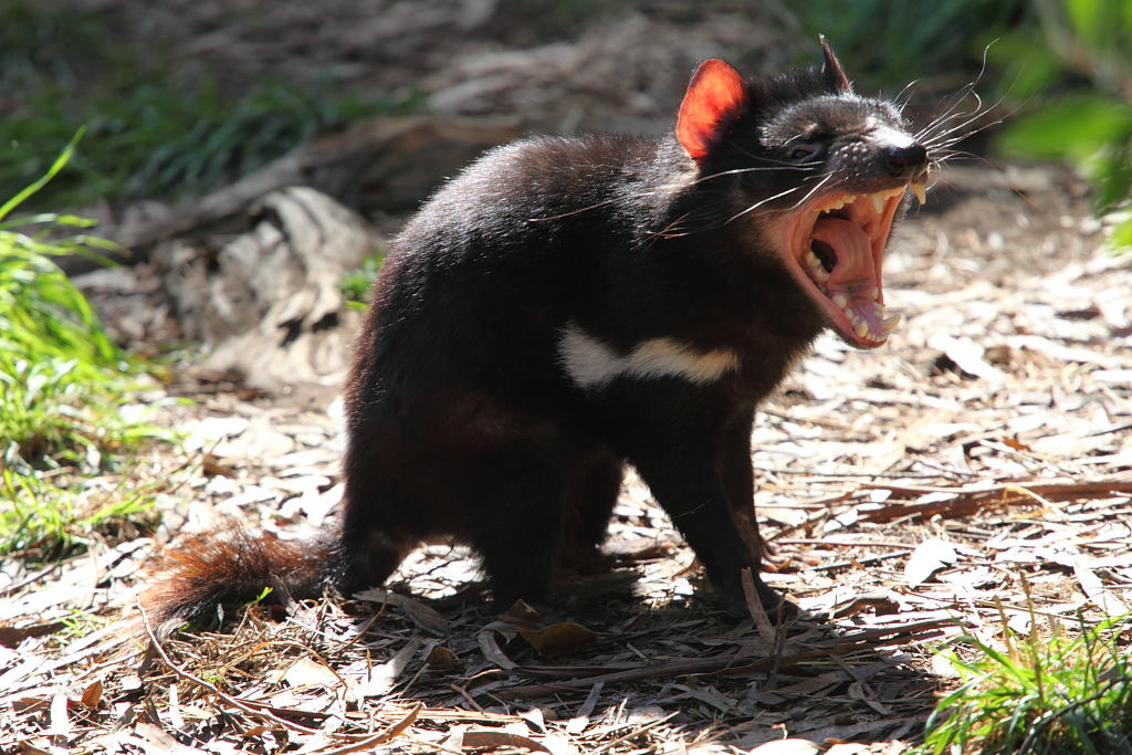 Tasmanian Devil at Cleland Wildlife Park, Australia.